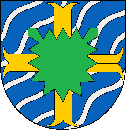 Coat of arms of the municipality Nettelsee in Schleswig-Holstein, Germany.